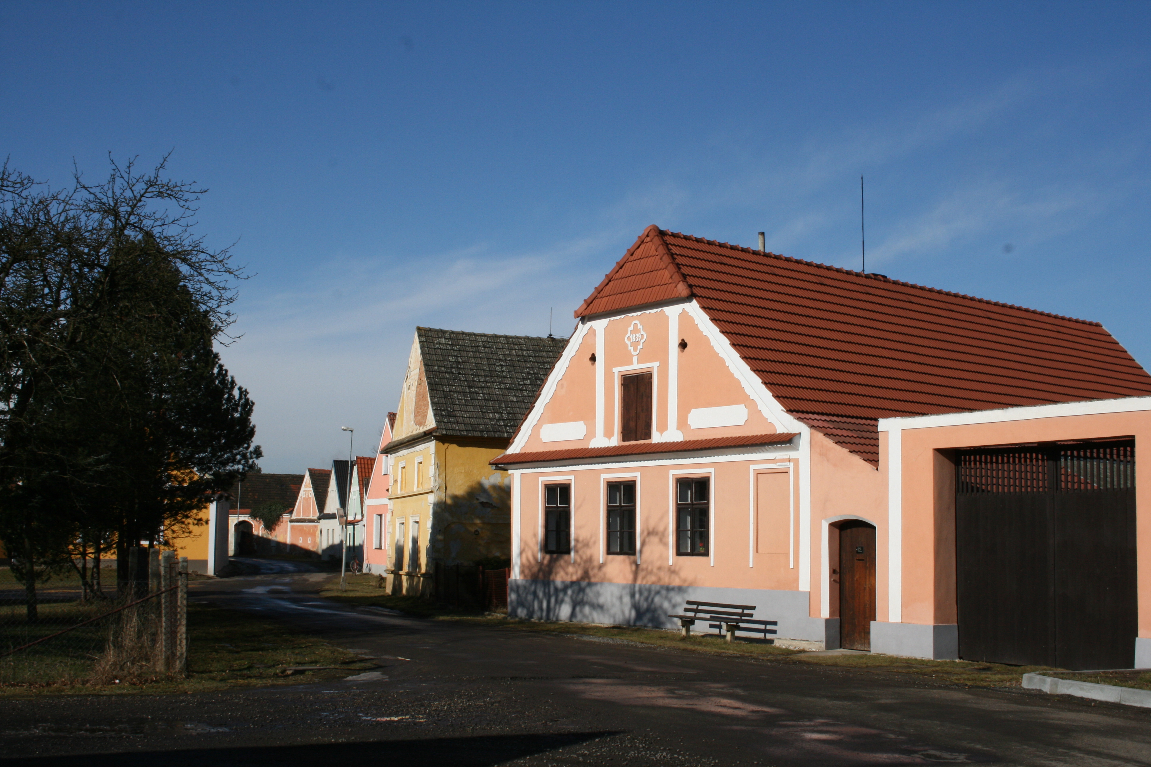 Borkovice Village, Tábor District, Czech Republic.